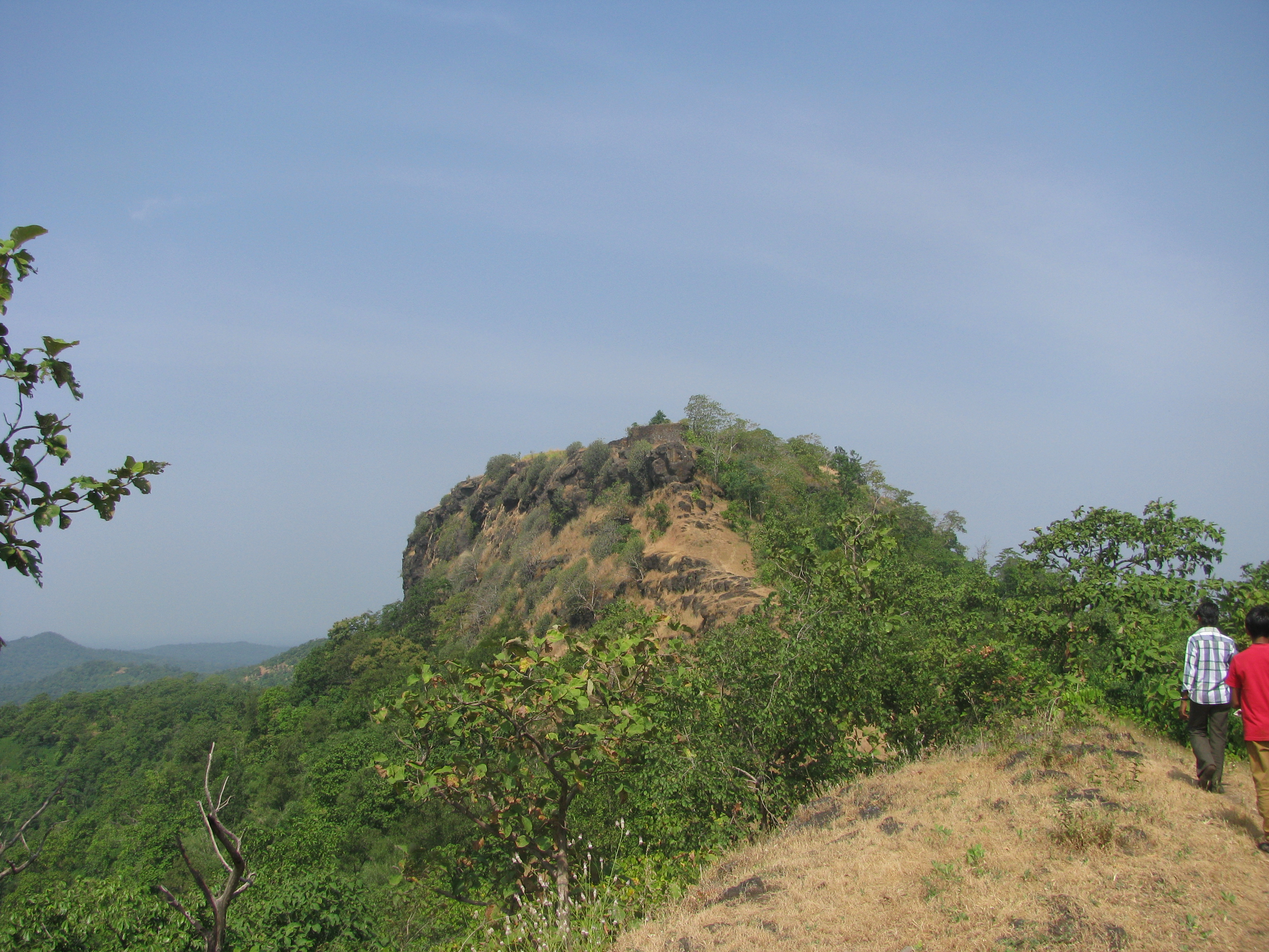 Rupgad fort (near Bardipada village, Dang district, Gujarat) view from half way.